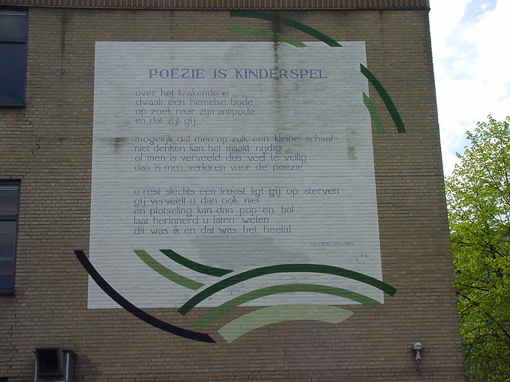 Wallpoem in de city of Leiden in the Netherlands.